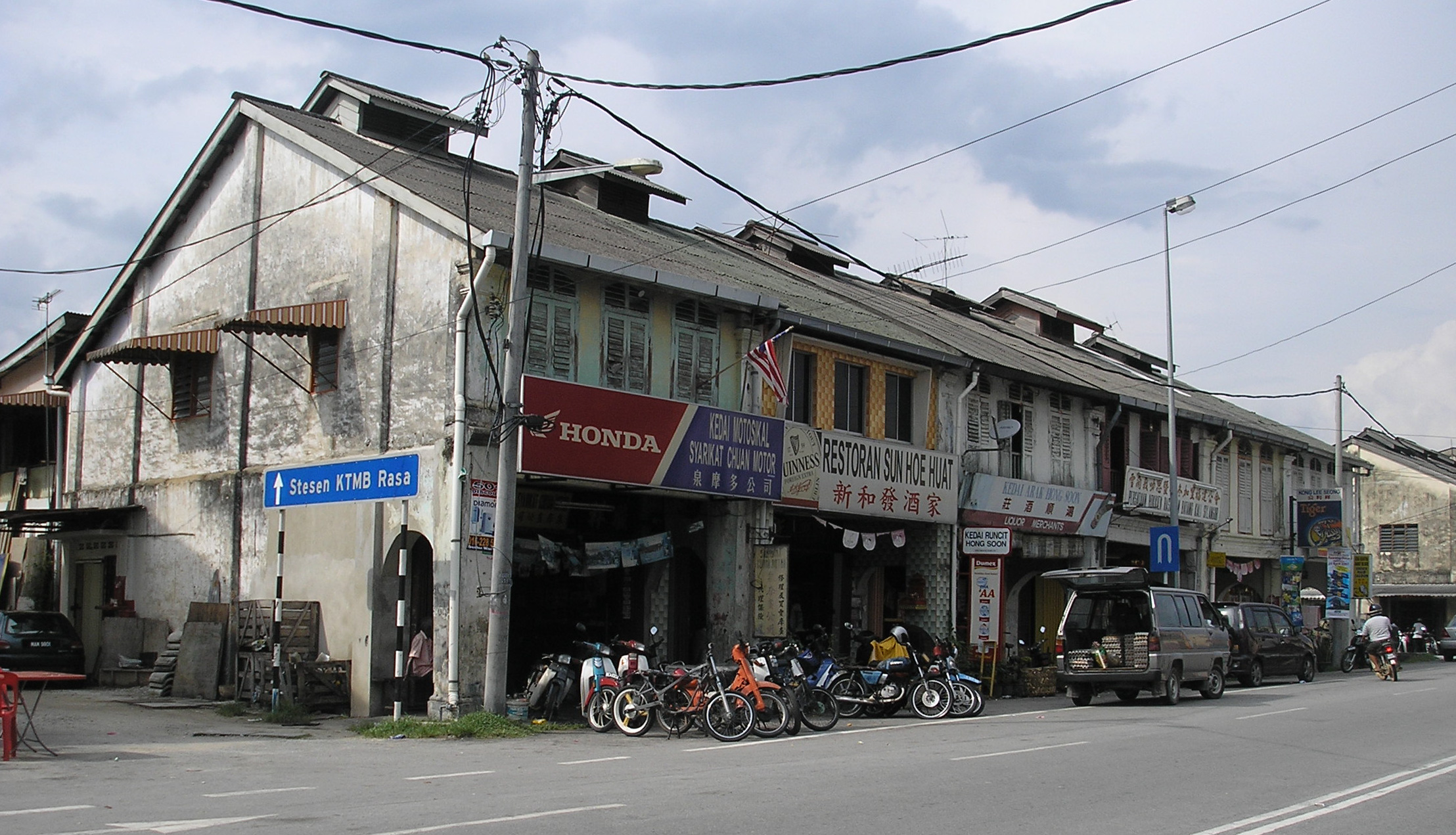 A row of six shophouses, some retaining their original designs, in the small town of Rasa, Selangor, Malaysia.